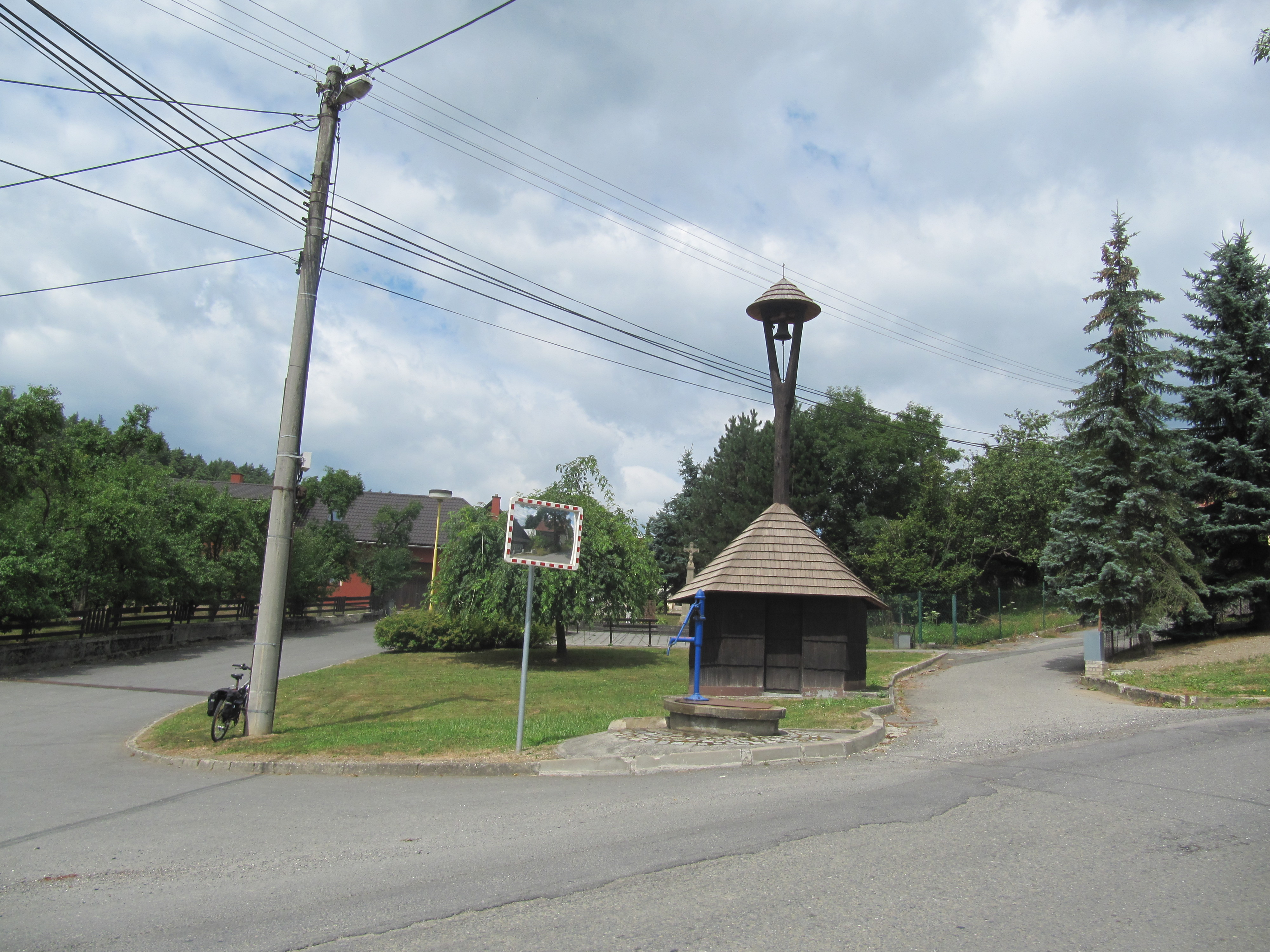 Valašské Klobouky, Zlín District, Czech Republic, part Smolina.